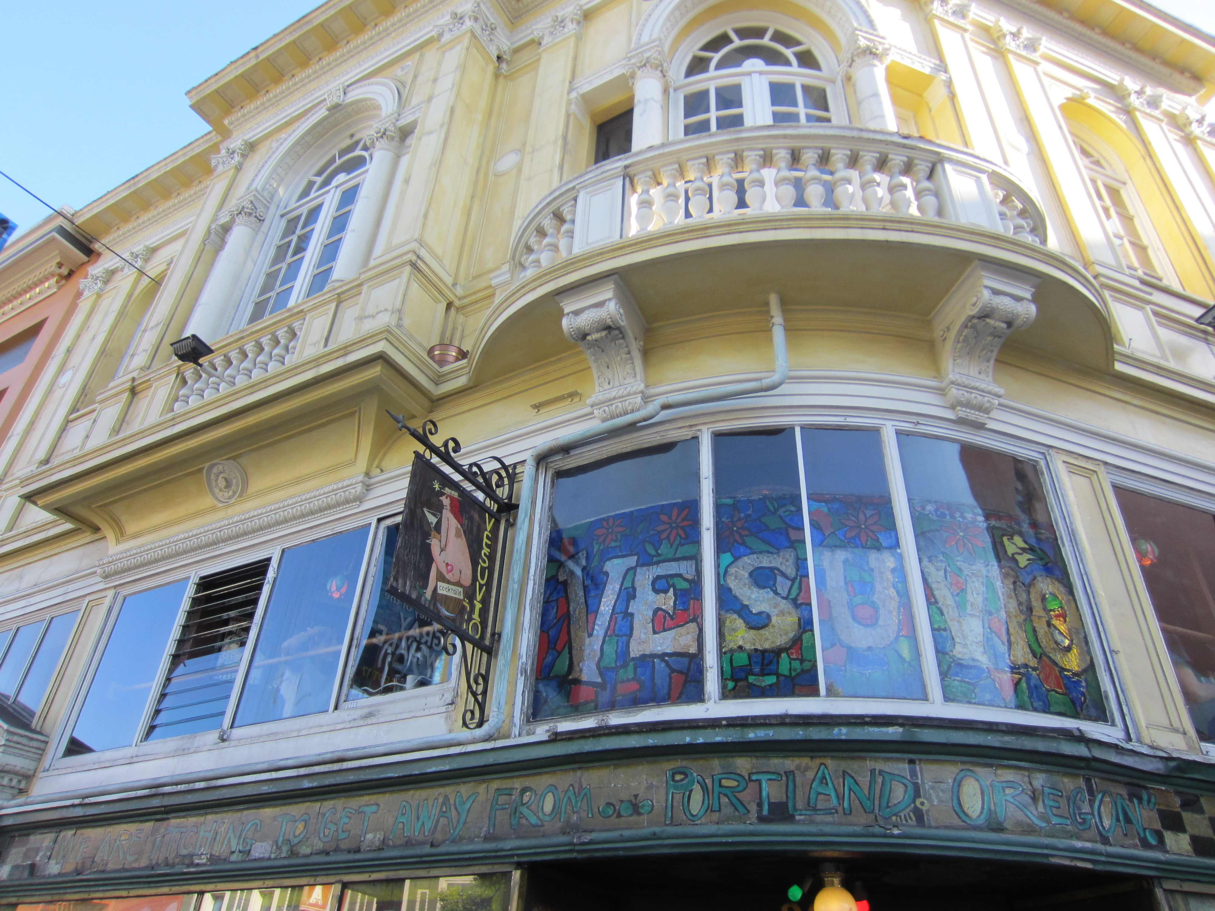 Vesuvio Cafe, San Francisco (2013)